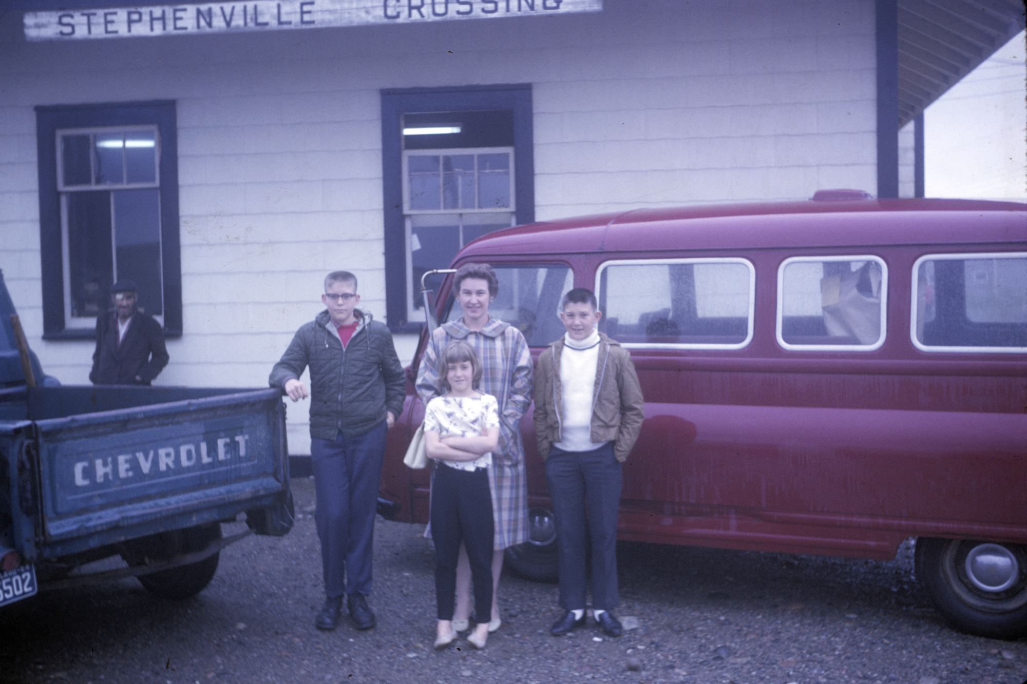 Stephenville Crossing Rail Way Station. Wayne Ray and family with one of only three Morris Minor's in Newfoundland .